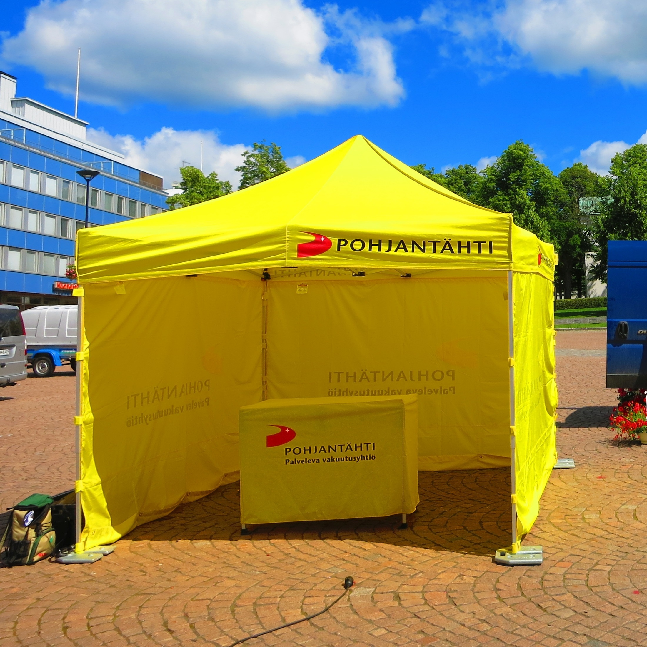 Nordic Star and summer sky (Hämeenlinna, Finland)